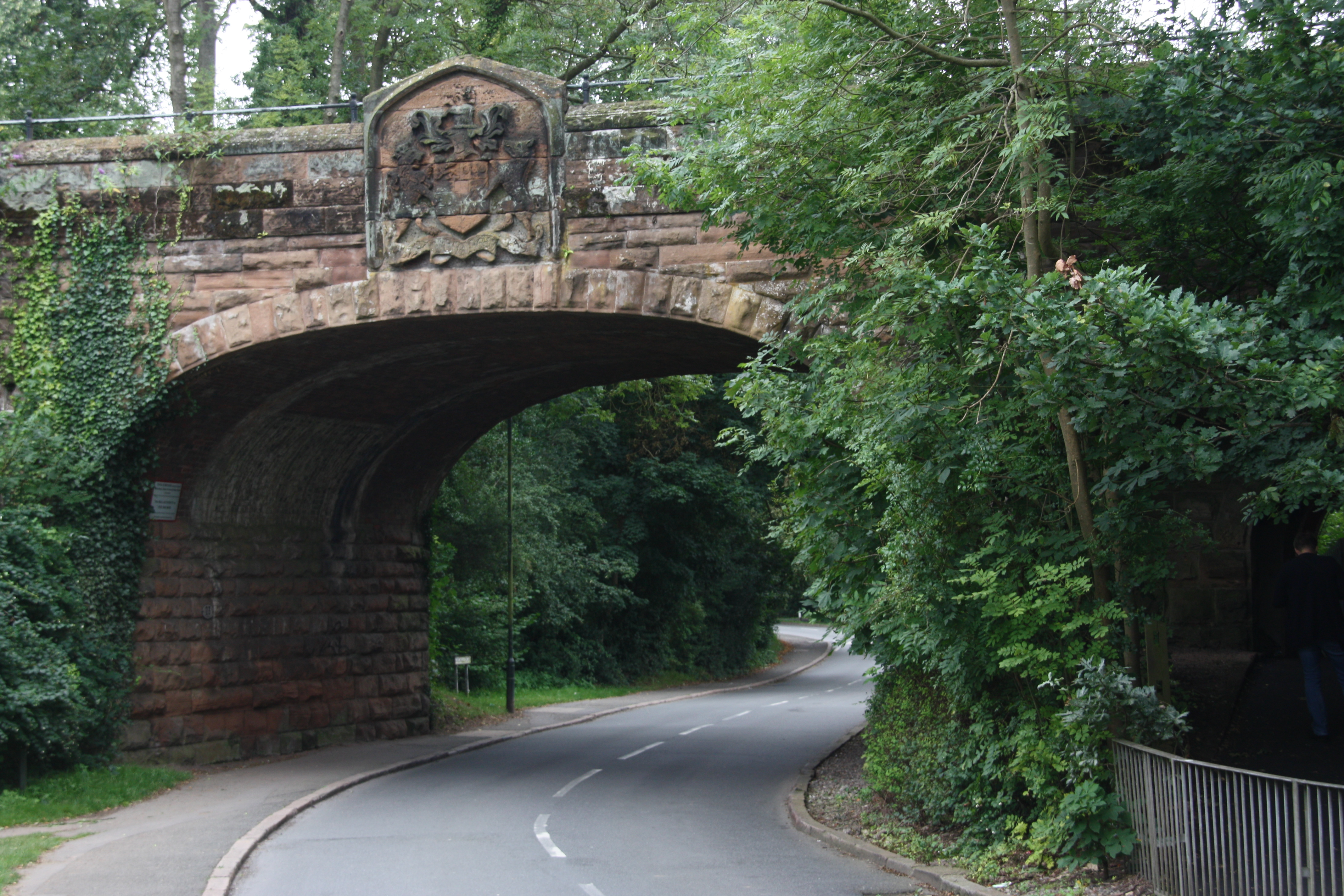 D1 - Coat of Arms Bridge in Coventry, UK